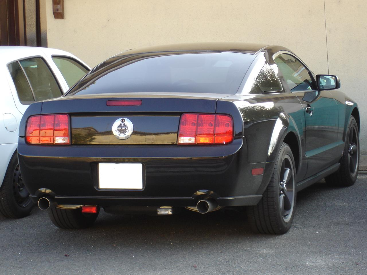 Ford Mustang Bullit